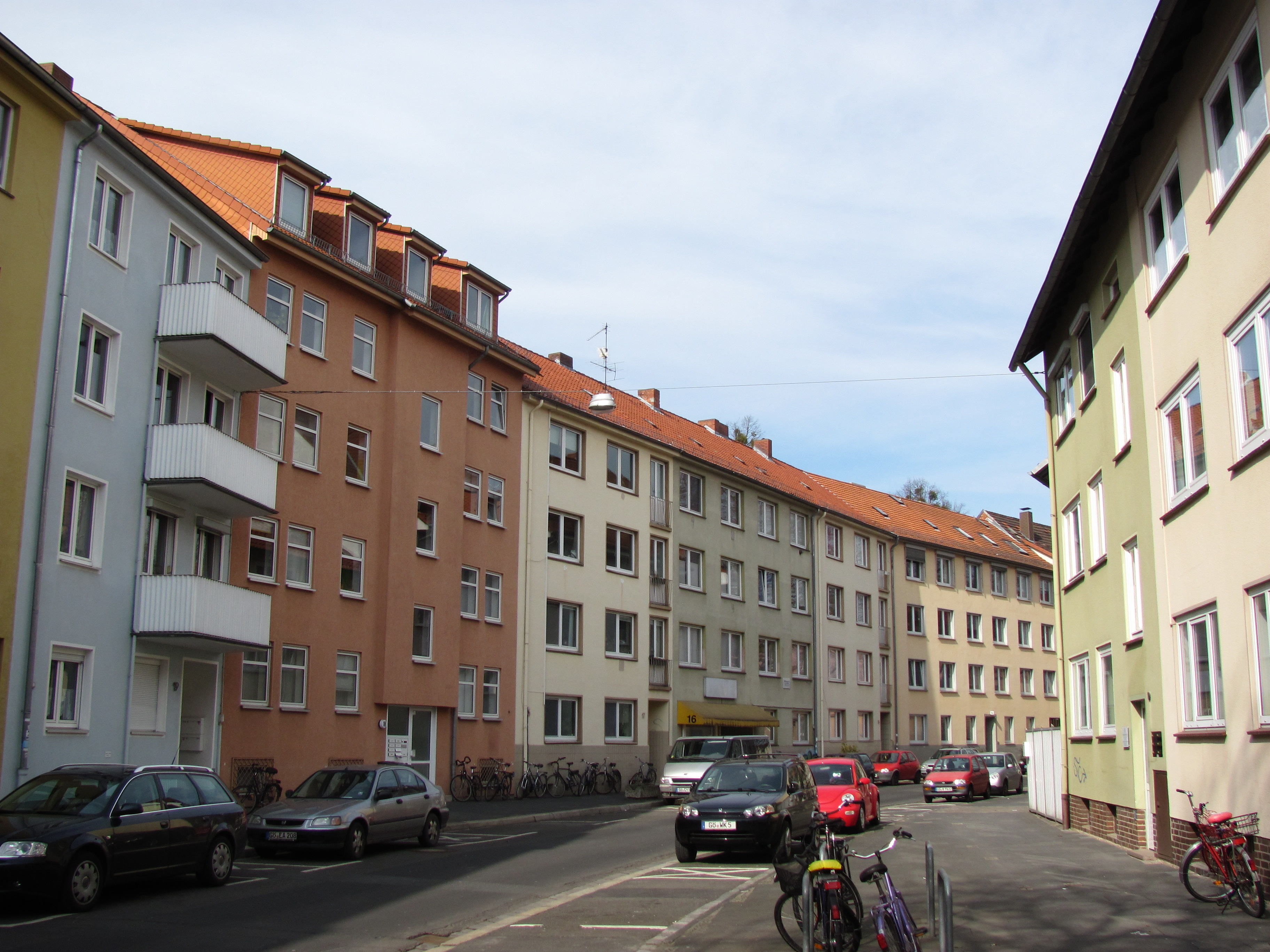 City of Göttingen, Lower Saxony, Germany: Untere Maschstraße Street with typical houses rebuilt after the Second World war